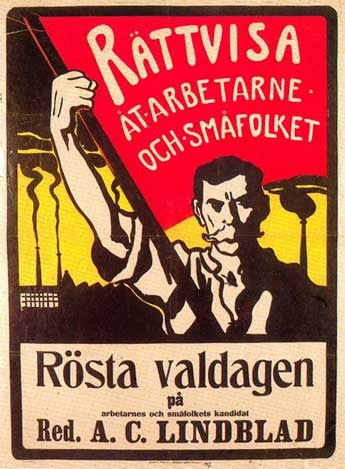 Anders Lindblad (b. 1866), Swedish social democratic politician and newspaper editor, portrayed in an election poster from 1908.